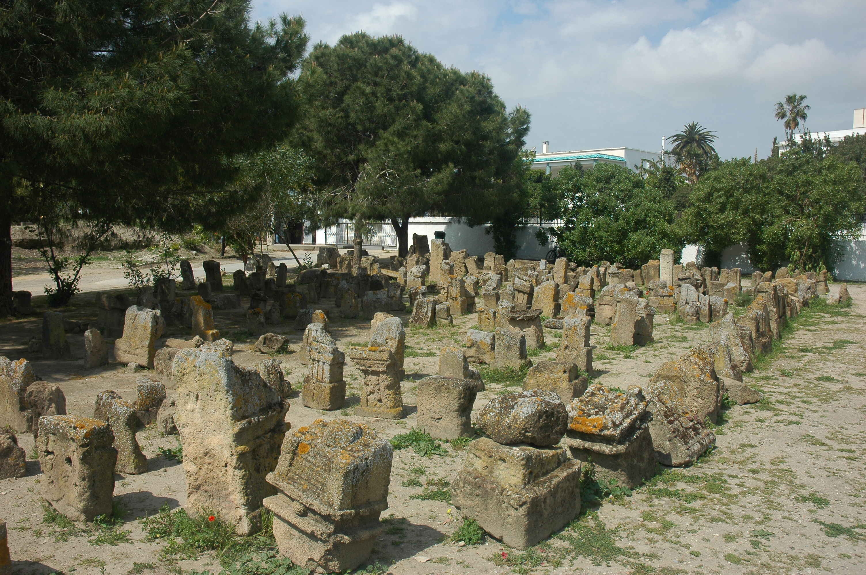 Tophet Salambo Carthage Tunisie